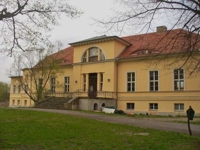 Gross Machnow - Gutshaus (Manor House)